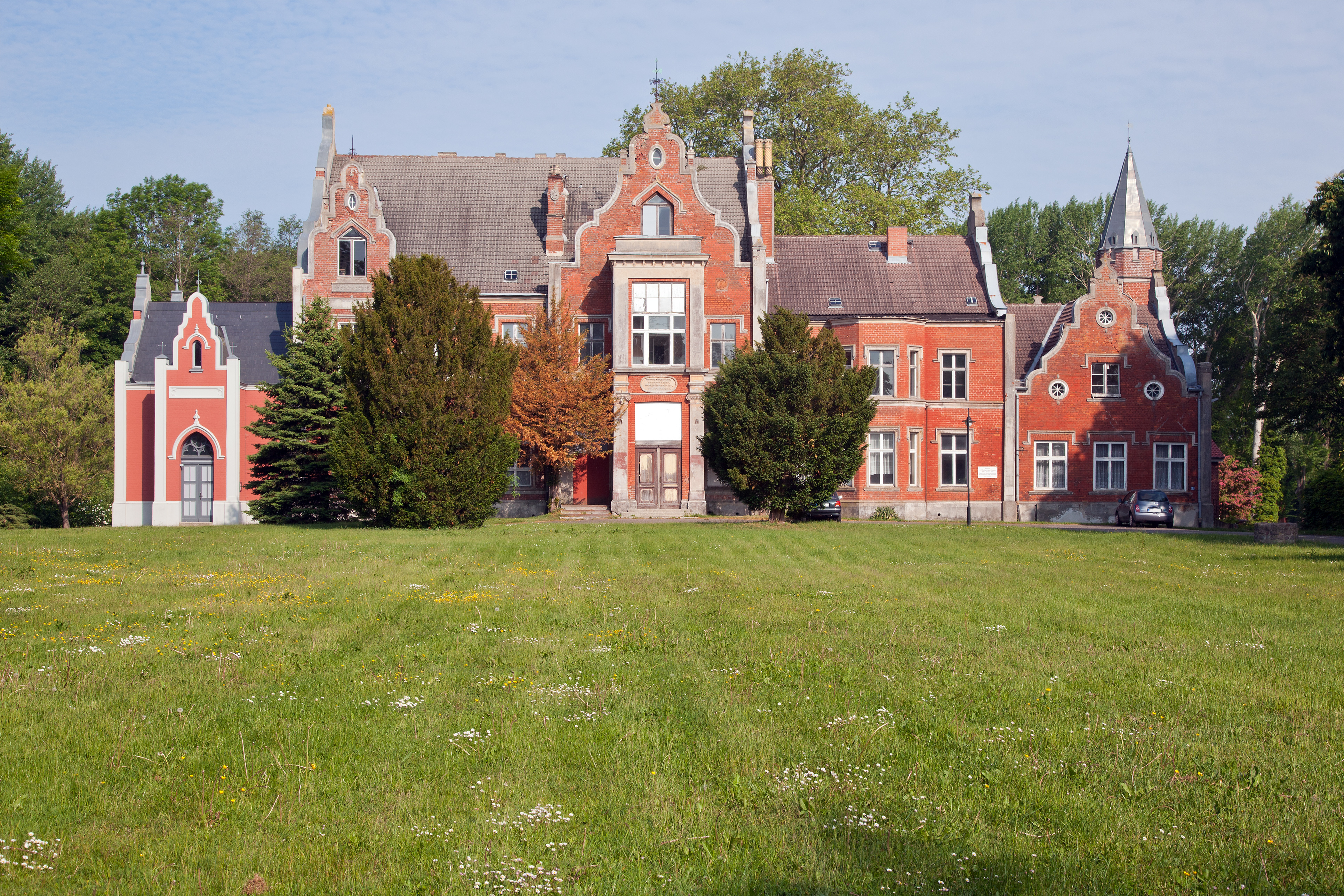 Parow, Mecklenburg-Vorpommern, manor house